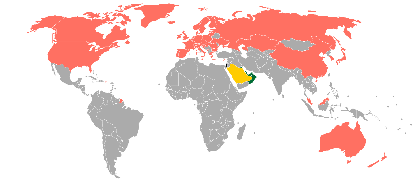 Visa policy of Saudi Arabia Saudi Arabia Visa-free eVisa or Visa on arrival Admission refused Visa required